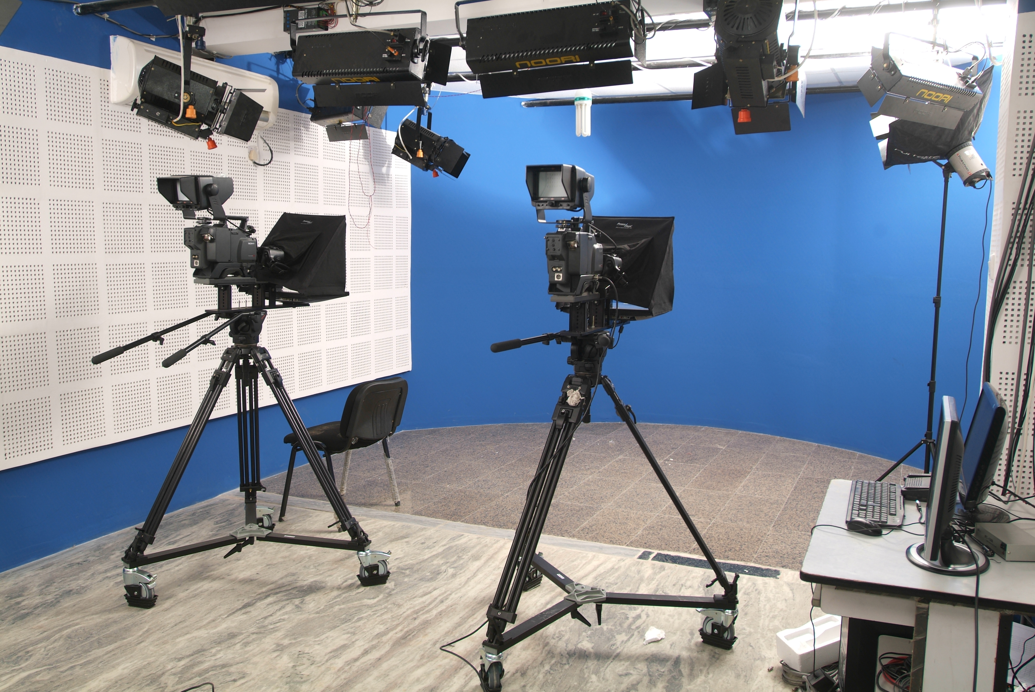 Htv camera